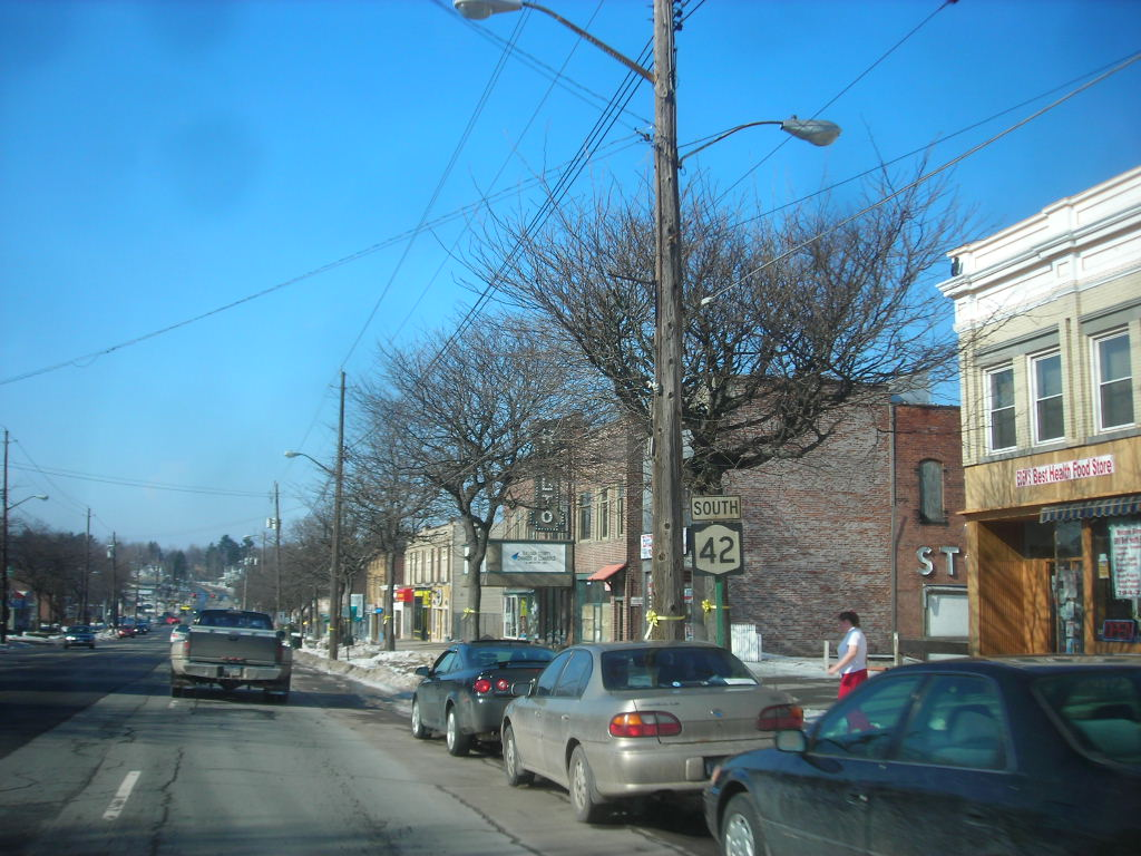 New York State Route 42 southbound through the village of Monticello.